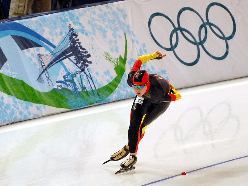 Stephanie Beckert at the Vancouver 2010 Olympics.